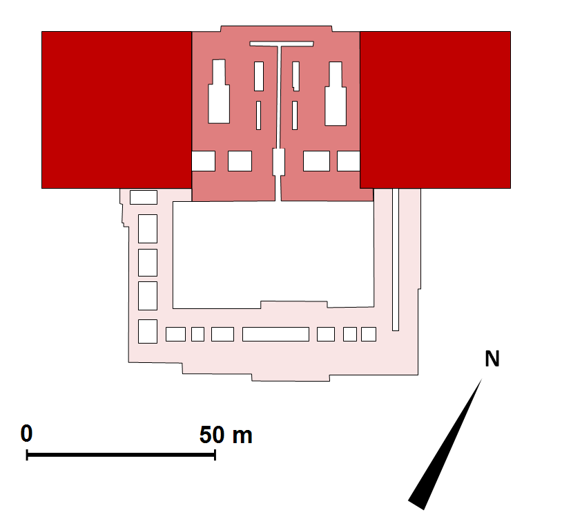 Temple of the gods Anu and Adad in the city of Assur. In red, the twin ziggurats ; in the middle, the twin temples ; in the south-east, the court of the complex. Redrawn fron G. Rachet, Dictionnaire de l'archéologie, Paris, 1994, p. 1035.